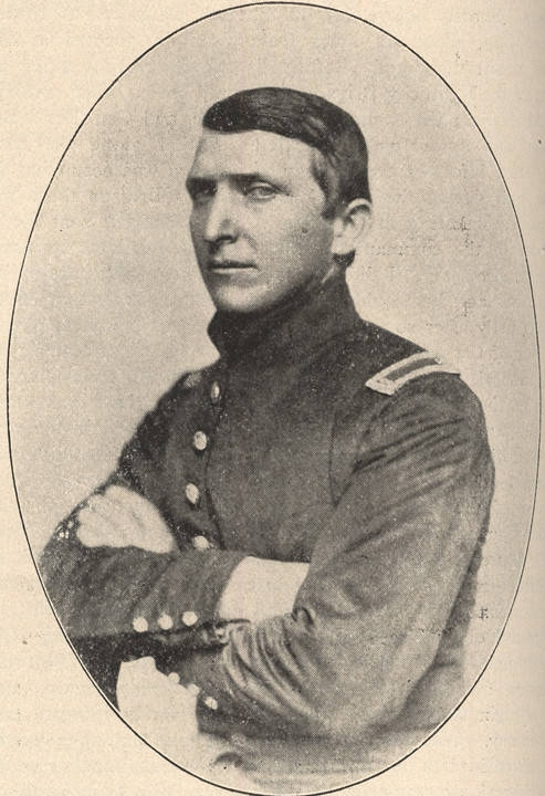 John C. Marrast; Marrast served as a first lieutenant of the Mobile Rifles, and he was a colonel of the 22nd Alabama Infantry, C.S.A. From Confederate Veteran Magazine, Volume 14, Number 4, 1906, page 162.